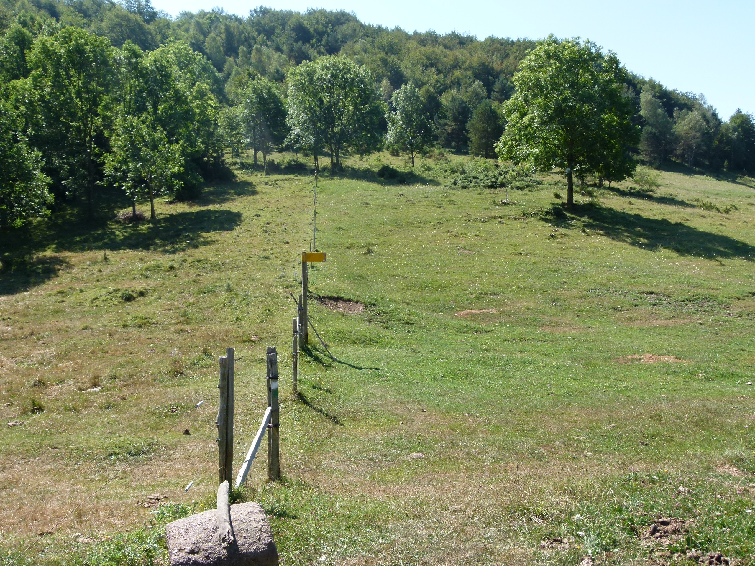 Malrem pass (Pyrenees) limit between Vallespir and Ripollès counties